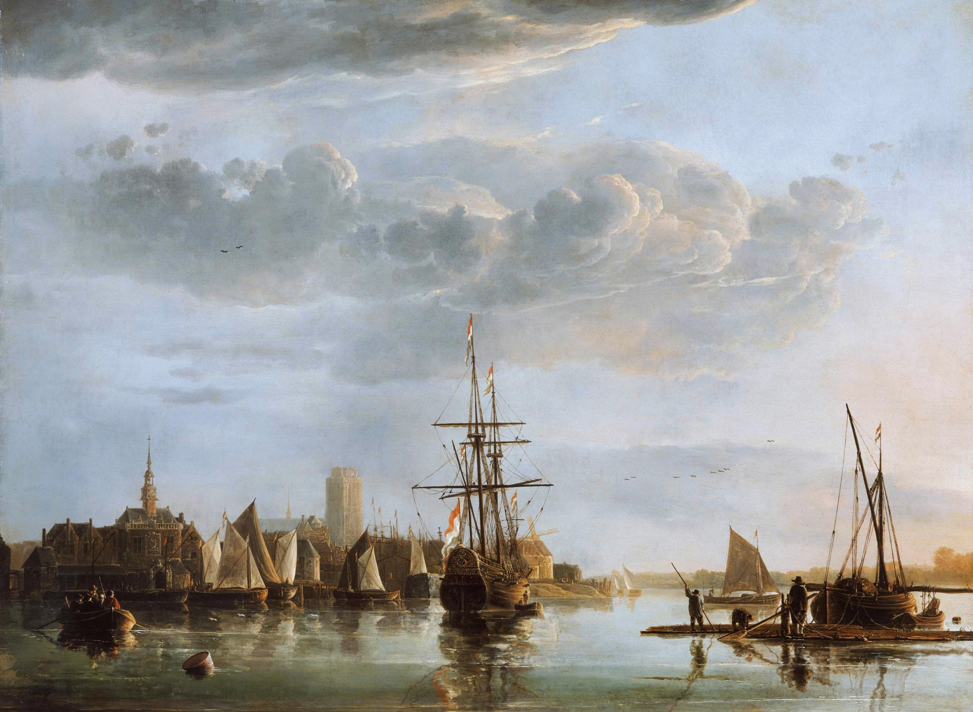 View of Dordrecht oil on canvas 97.8 x 137.8 cm signed b.r.: A cuyp circa 1655